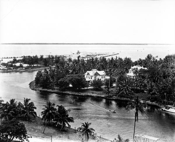 Bird's eye view of homes along the Miami River at Brickell Point, Florida